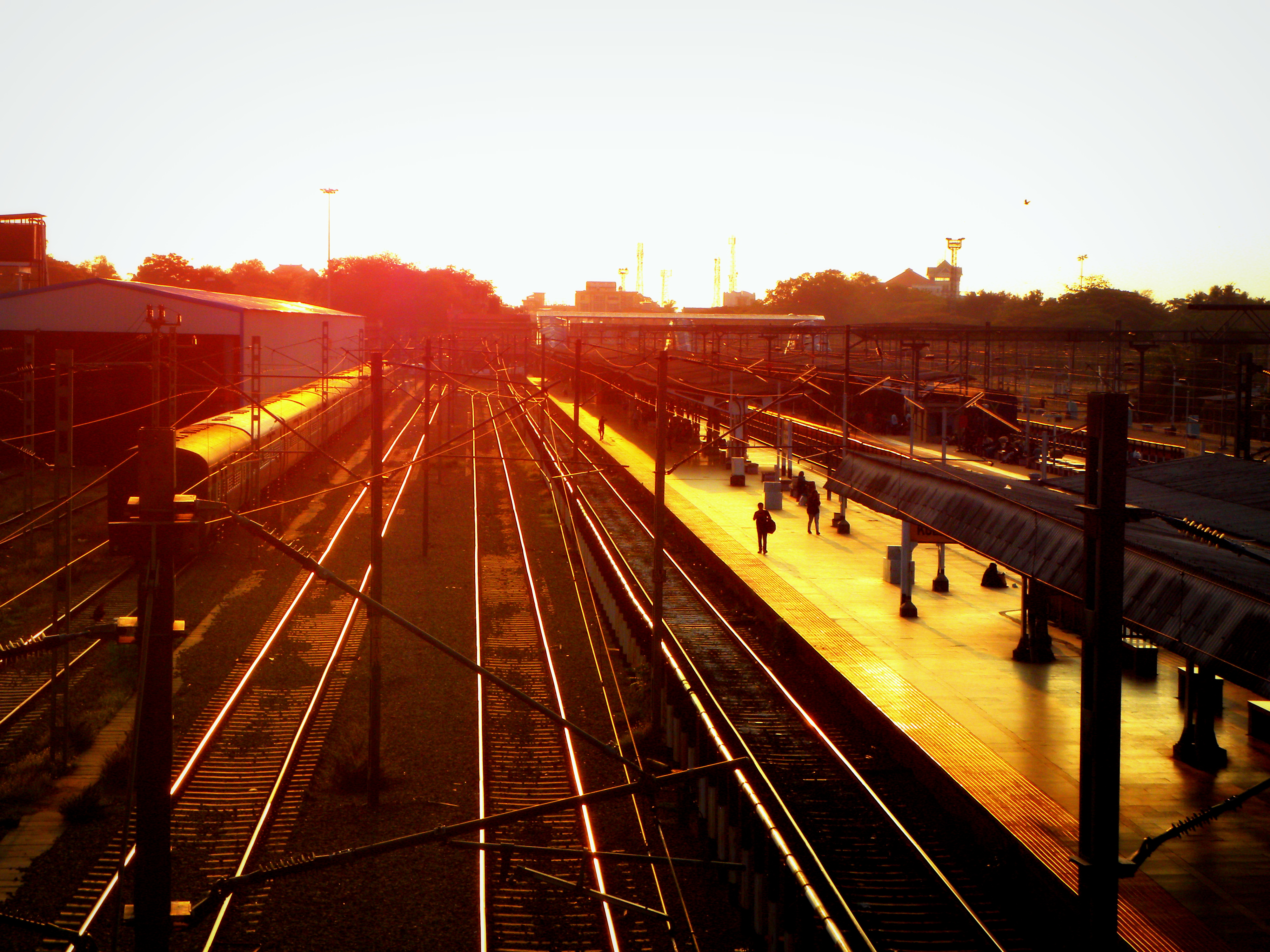 Kollam Junction railway station - Second largest railway station in Kerala state, India